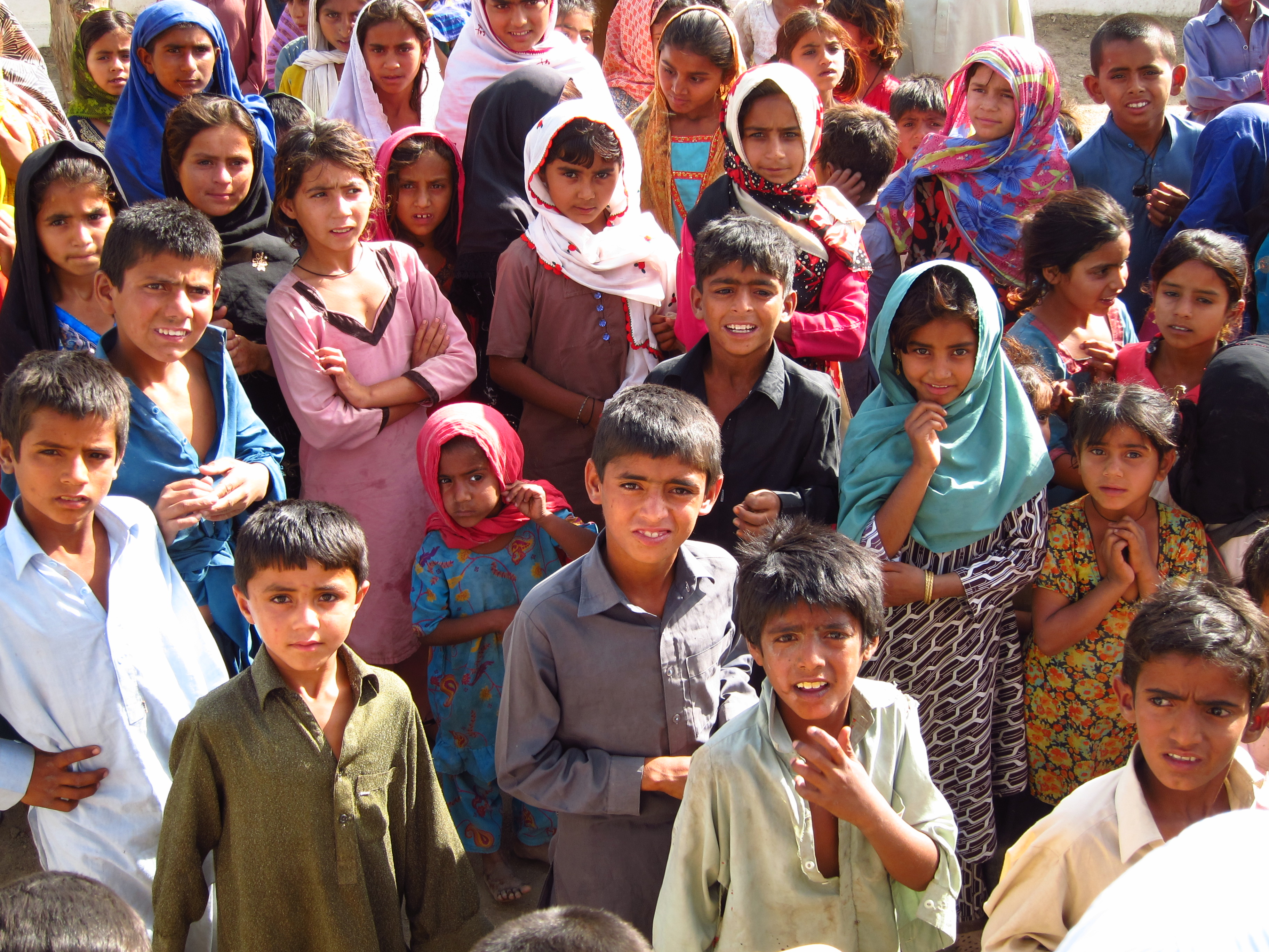 DFID supported the rebuilding of hundreds of schools that had been destroyed during the floods that swept across Pakistan in 2010. Photo: Dan Casperz/DFID